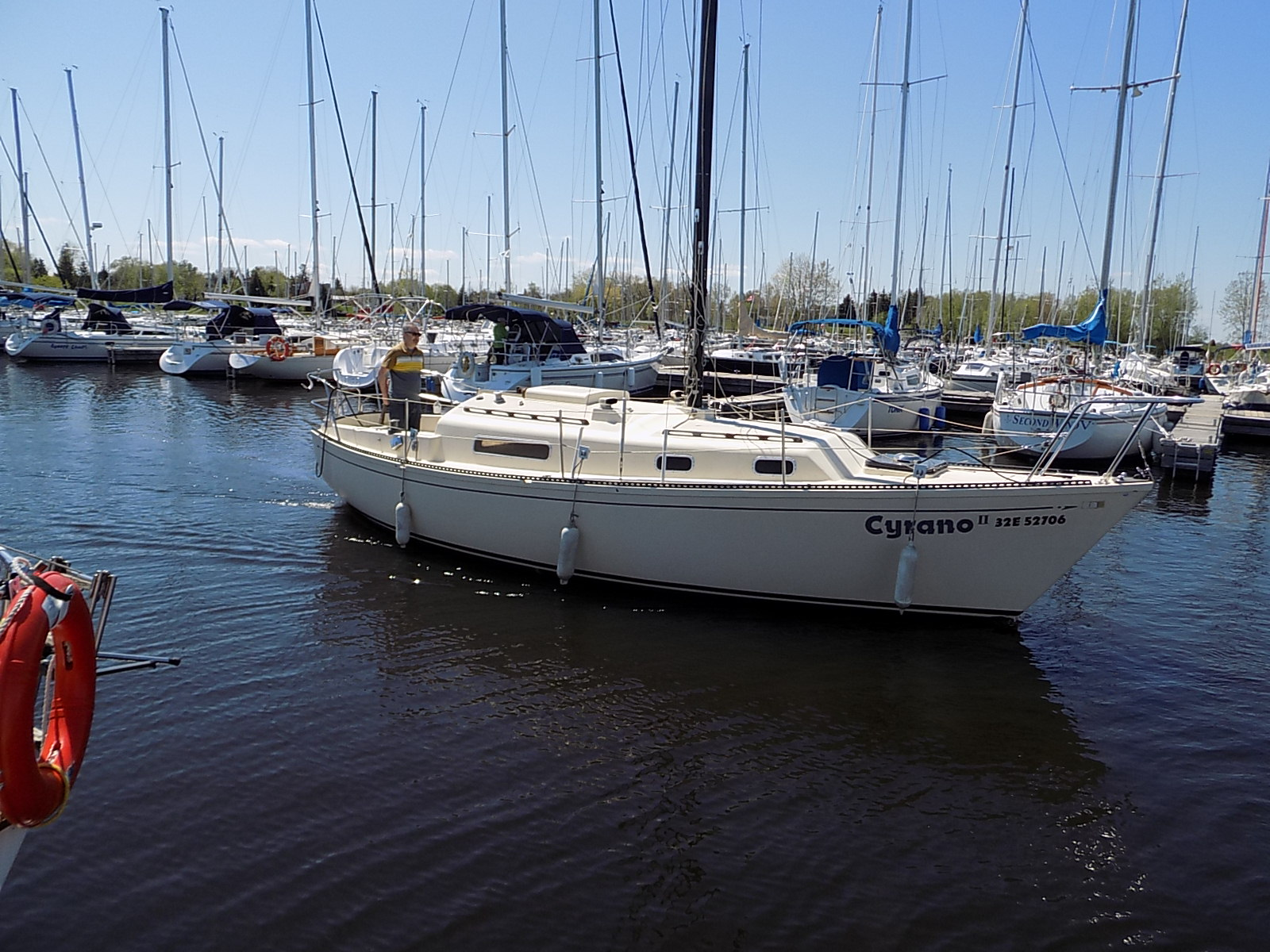 An Aloha 28 sailboat named Cyrano II.